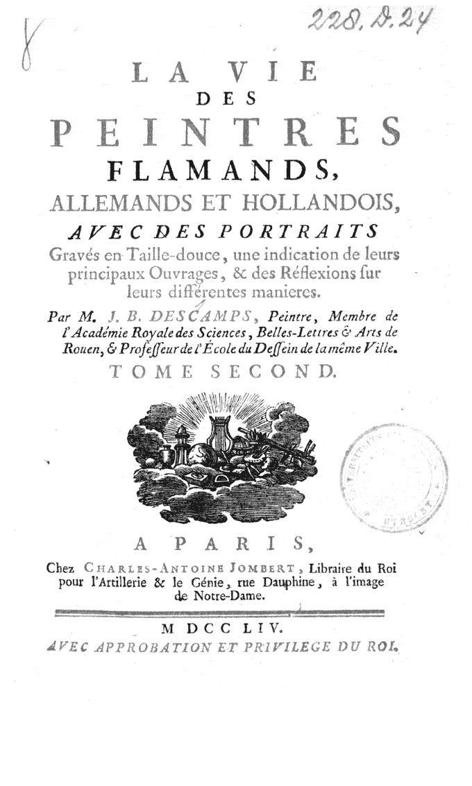 Book 2 of 4-volume painter biographies by Jean-Baptiste Descamps